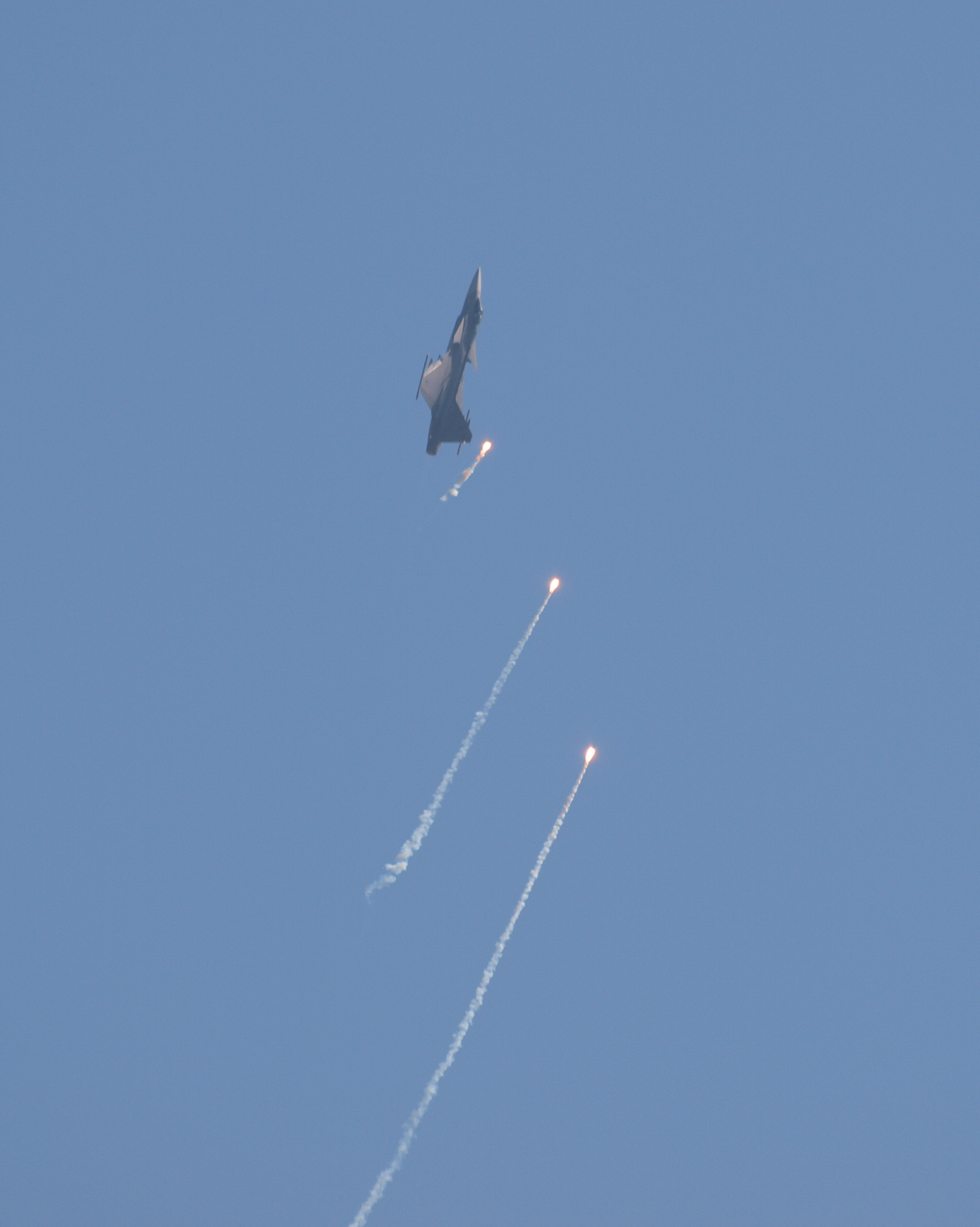 JAS 39 Gripen of the Czech Air Force releasing flares from its BOP/C dispenser at Czech International Air Fest 2008, Brno